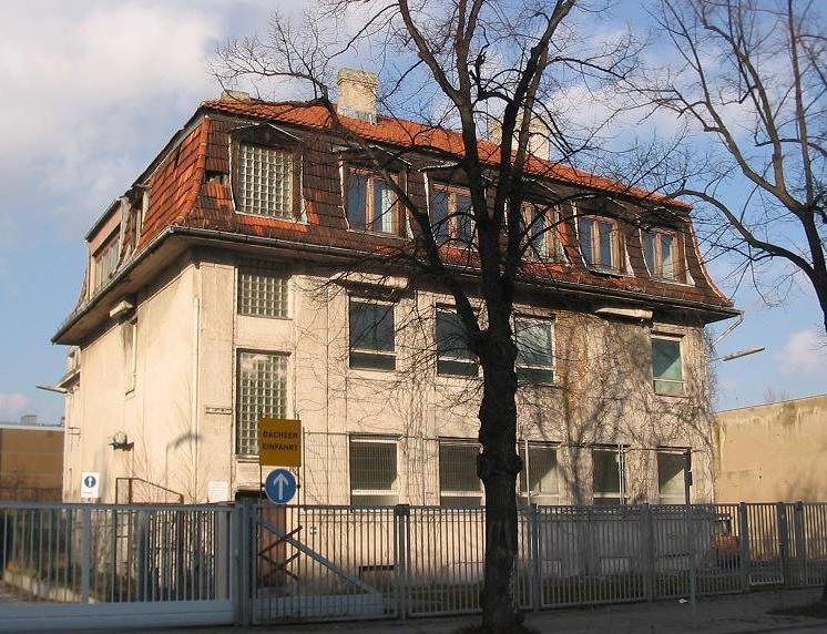 Building of the former „Beamten Wirtschaftsvereins zu Berlin“ in the Teilestraße in Berlin-Tempelhof